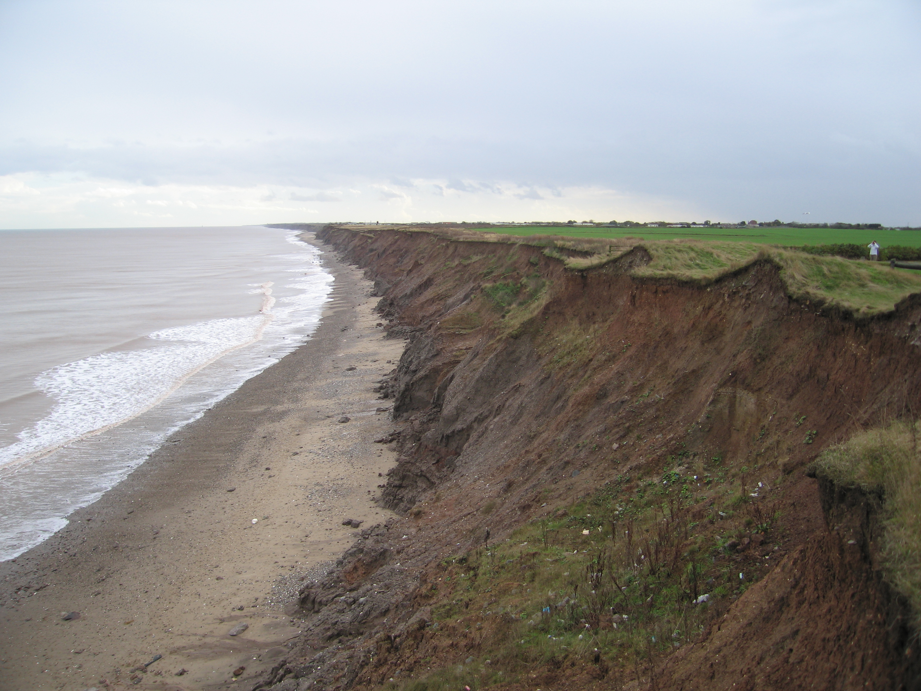 Cliffs at East Newton, East Riding of Yorkshire, England.Looking south.